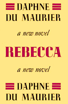 Front cover of the first printing of the novel Rebecca